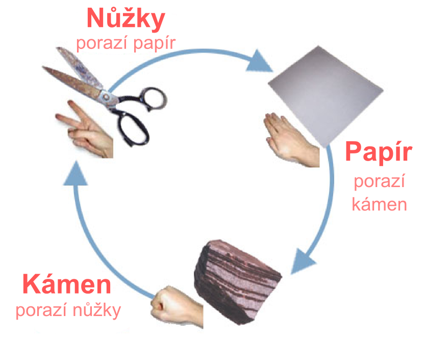 This is composed of other free images on Wikipedia: *Image:SandstoneUSGOV.jpg (PD) *Image:Schere Gr 99.jpg (GFDL, uploaded by Horst Frank) *Image:Paper 450x450.jpg (PD) *Image:SssStein.jpg (GFDL, uploaded by Horst Frank) *Image:SssPapier.jpg (GFDL, uploaded by Horst Frank) *Image:SssSchere.jpg (GFDL, uploaded by Horst Frank) The image was composed and uploaded by User:TheCoffee on the English Wikipedia